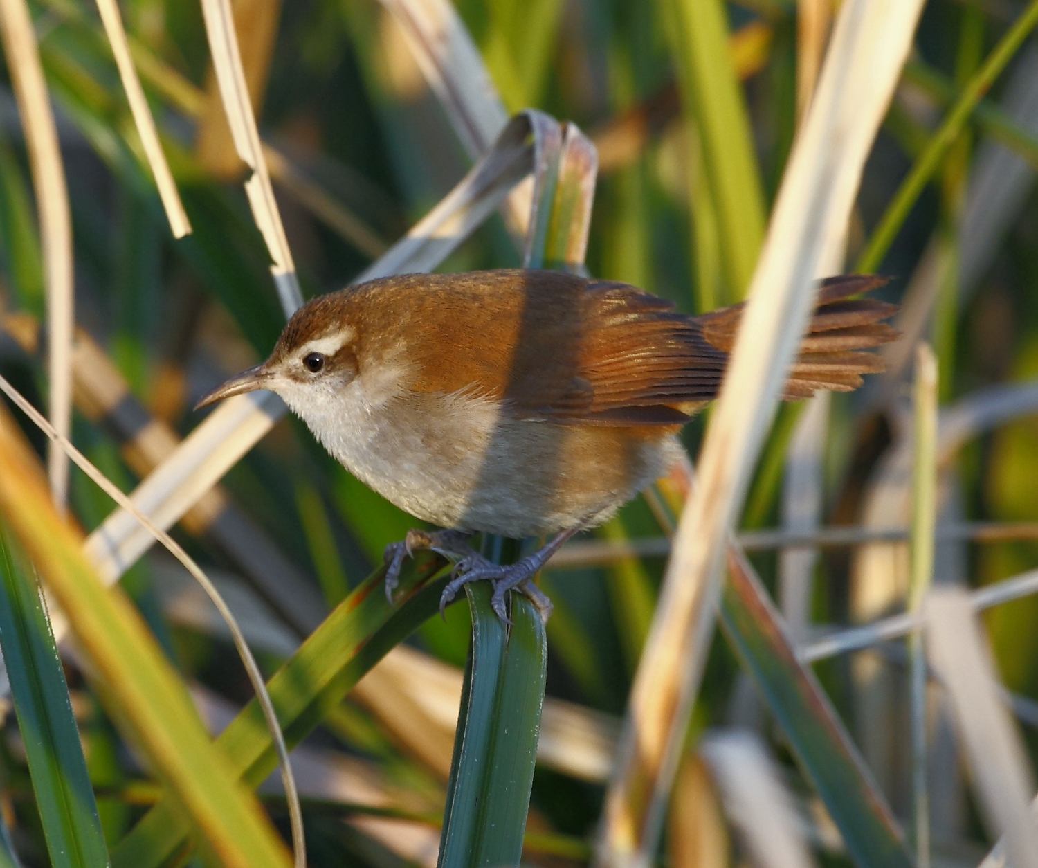 Curve-billed reedhaunter at Montevideo, Uruguay.